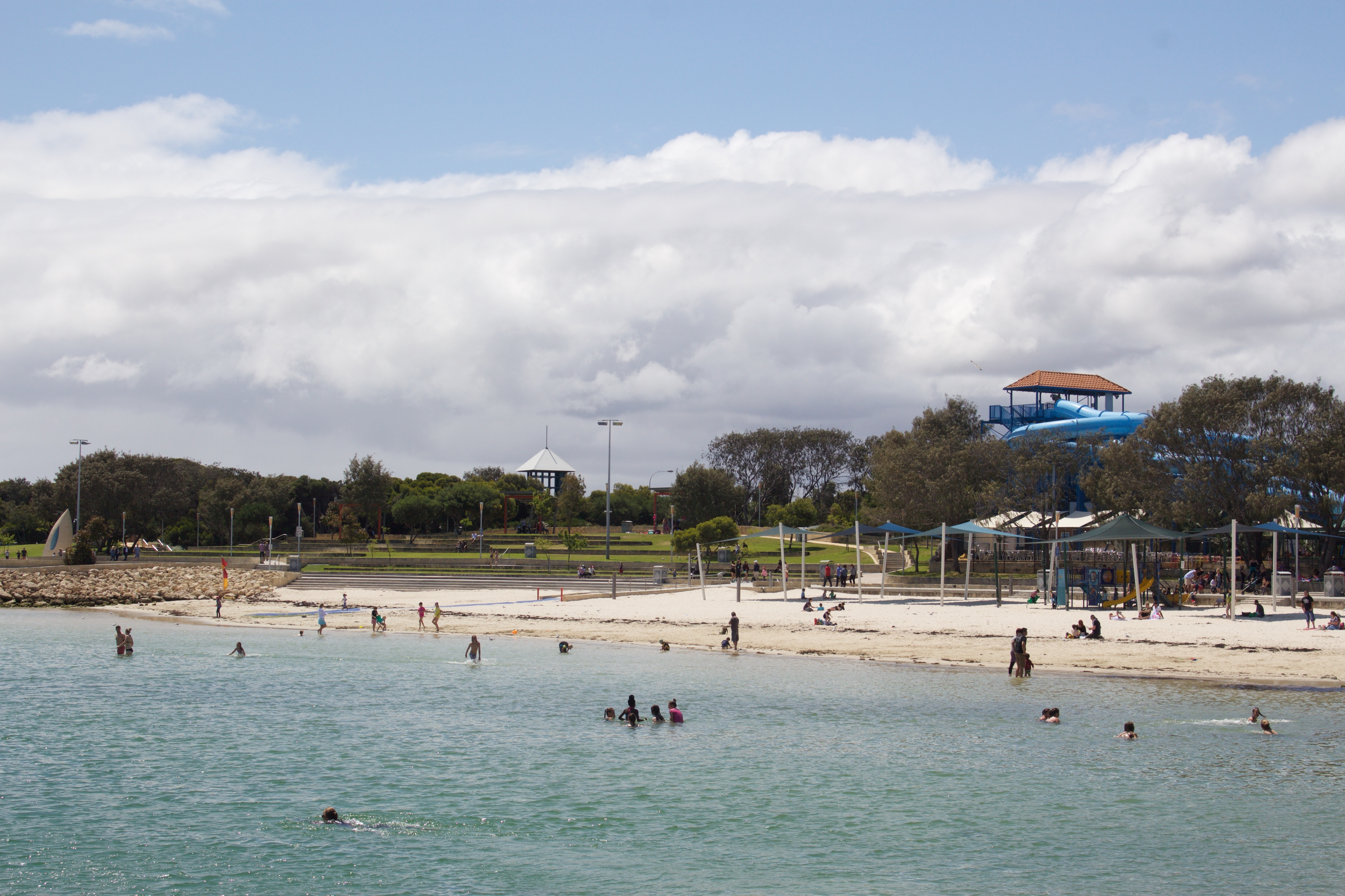 Beach, at Hillarys Boat Harbour, Western Australia. This area is a known tourist attraction